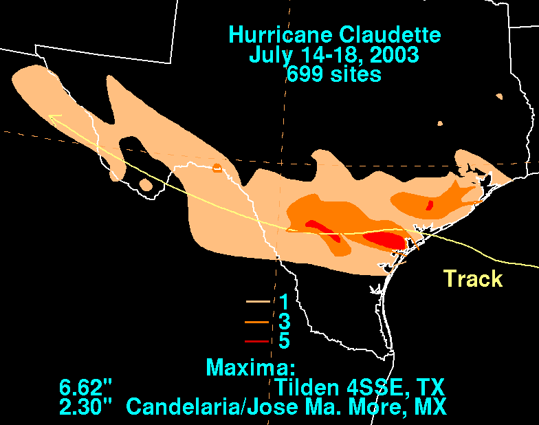 Storm total rainfall map of Hurricane Claudette during July 2003.